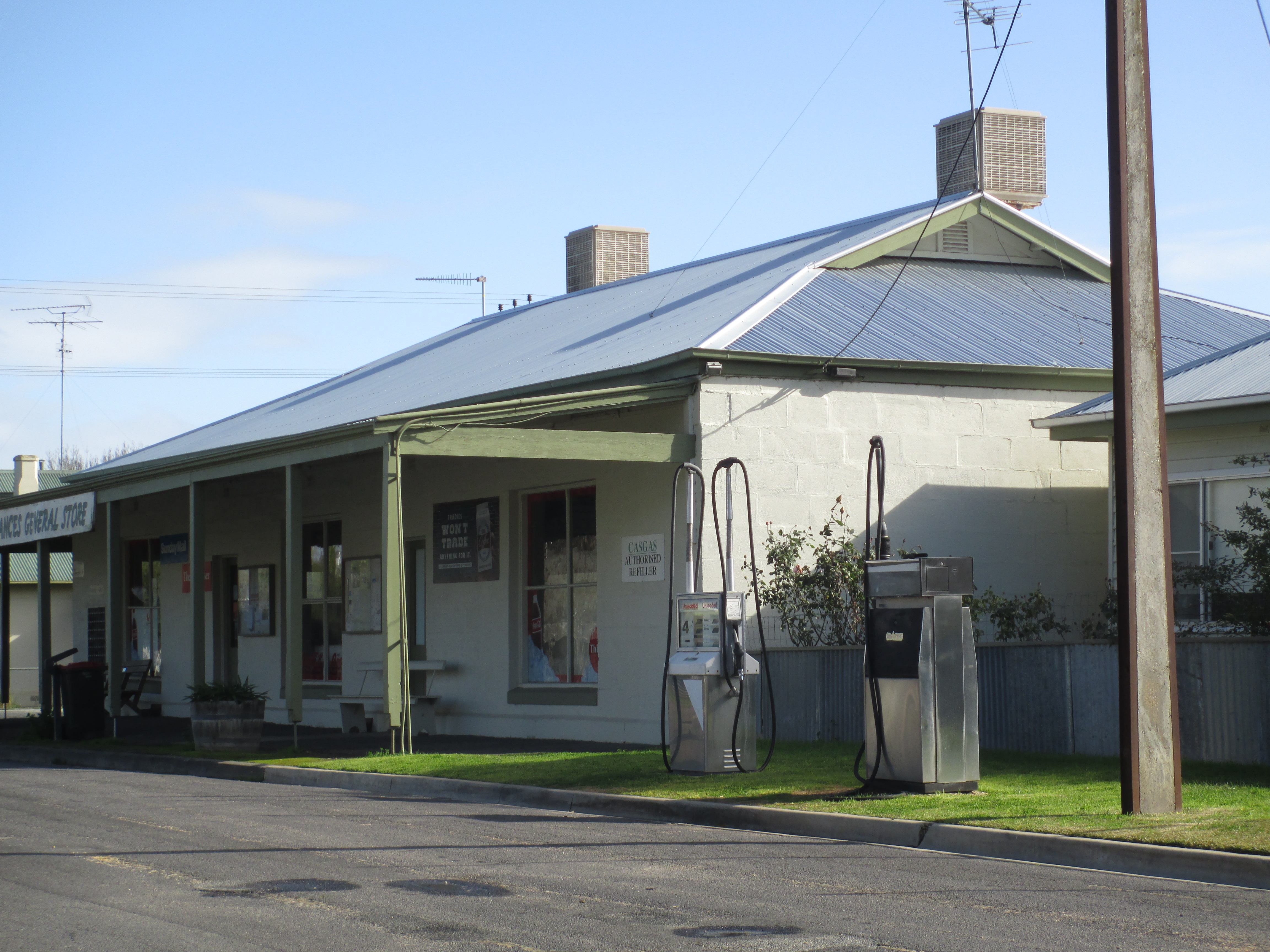 Frances main street